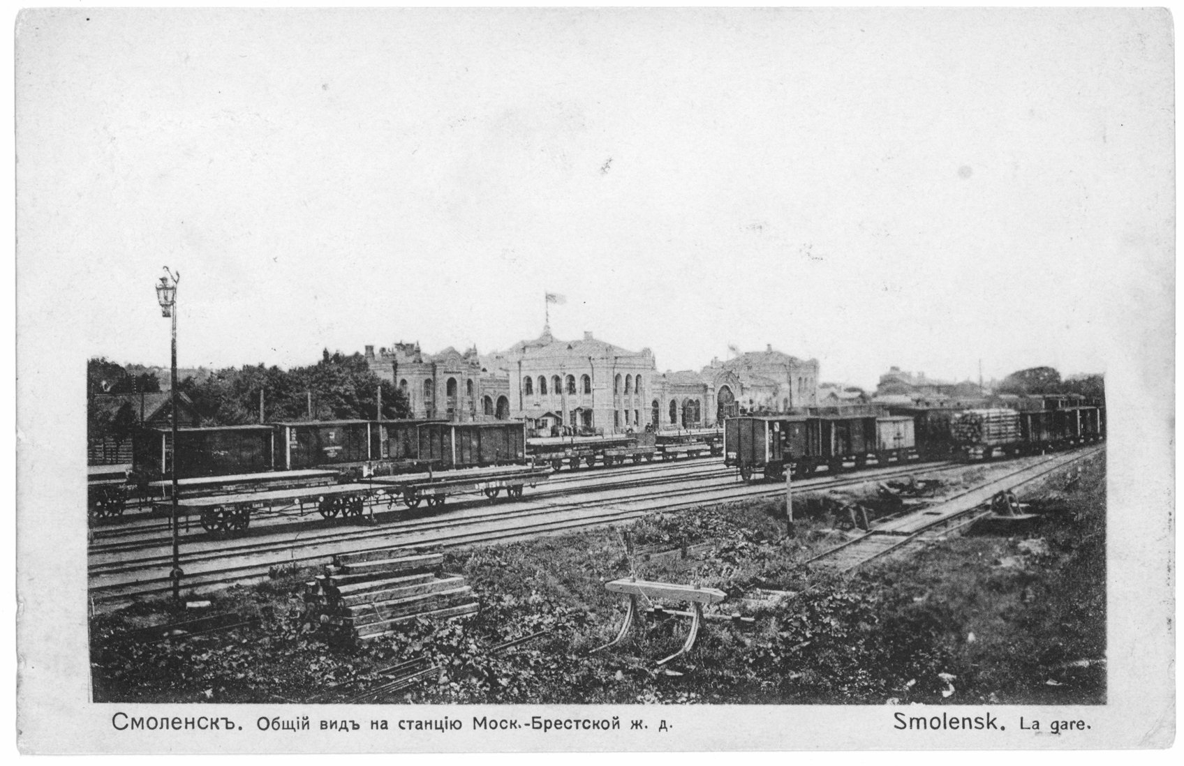 General view of the station "Smolensk" the Moscow-Brest railway.